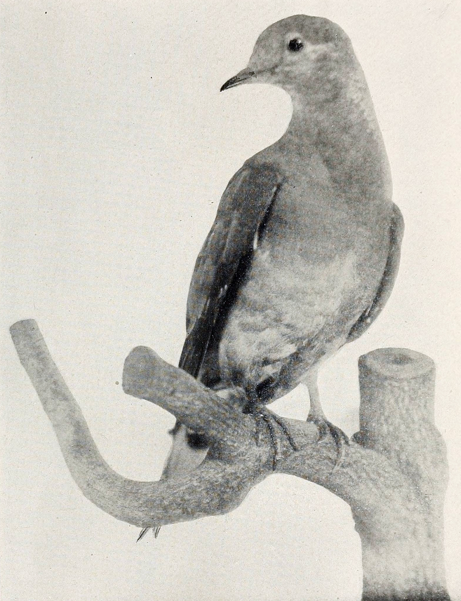 The last Passenger Pigeon Martha as a mounted specimen.